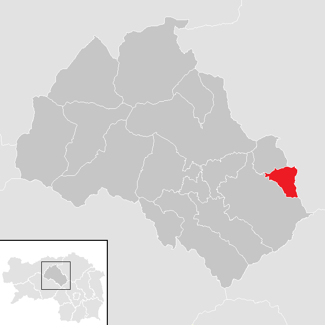 District Leoben